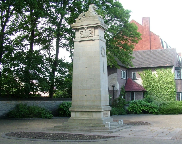 Stretford Cenotaph. Picture taken June 2007